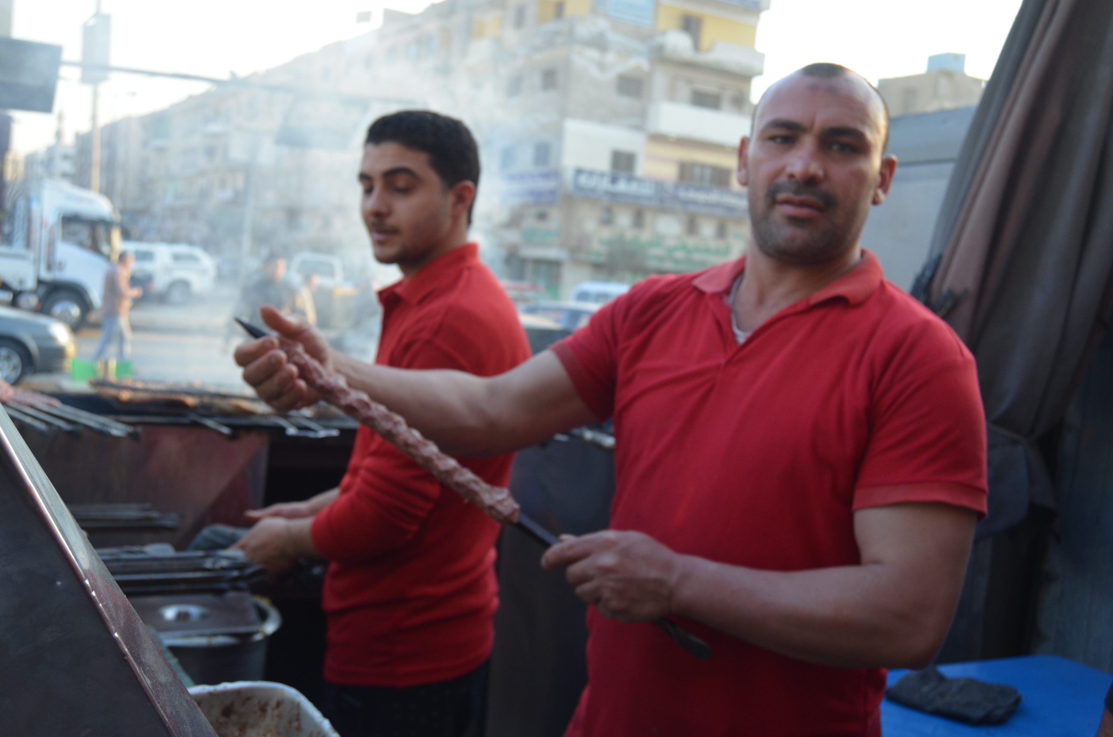 he puts the minced meat in the cup with oil, spices, salt and pepper and mix them all into a smooth, soft dough . then forms it on a skewer iron and puts on a coal fire